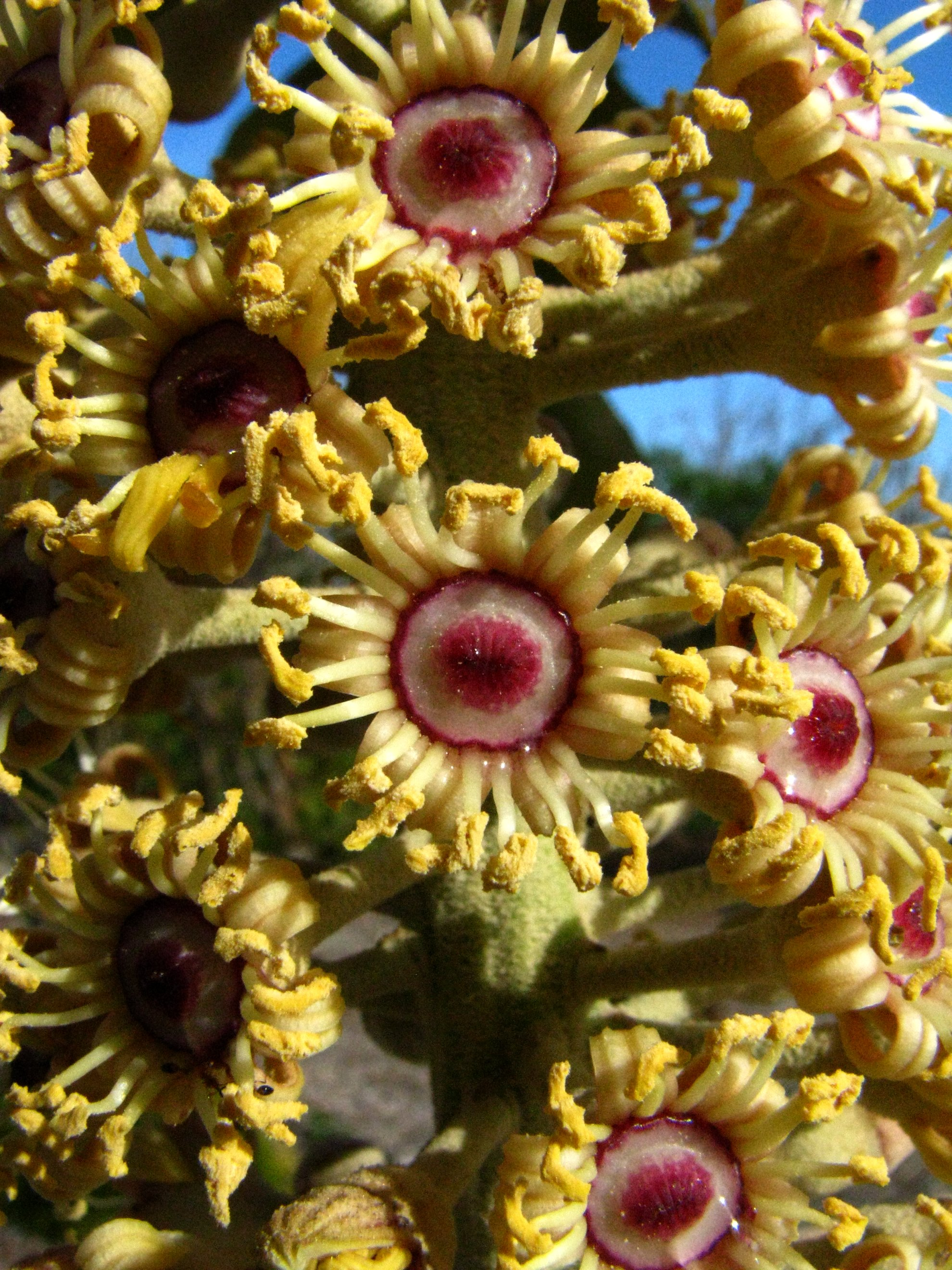 [syn. Munroidendron racemosum] Pōkalakala or Munroidendron Araliaceae Endemic to the Hawaiian Islands (Kauaʻi only) Oʻahu (Cultivated)